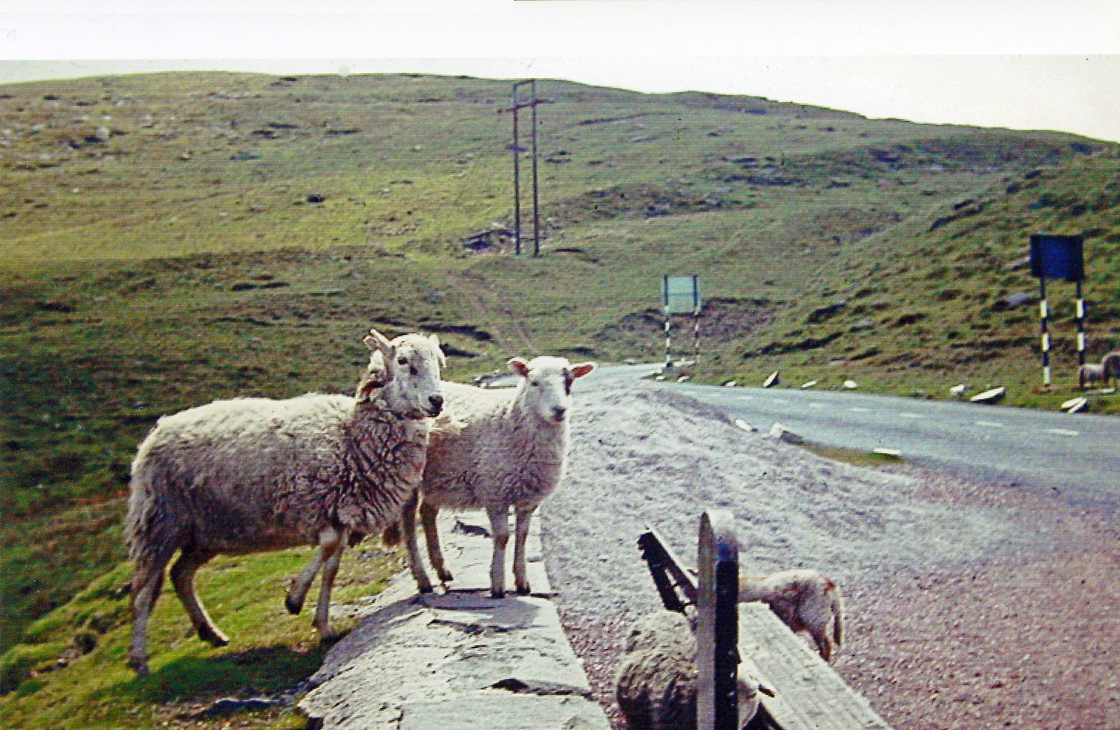 Sheep at Bwlch-y-Clawdd, 1962. View northward on the spectacular A4061 pass between the Ogmore and Rhondda Valleys.